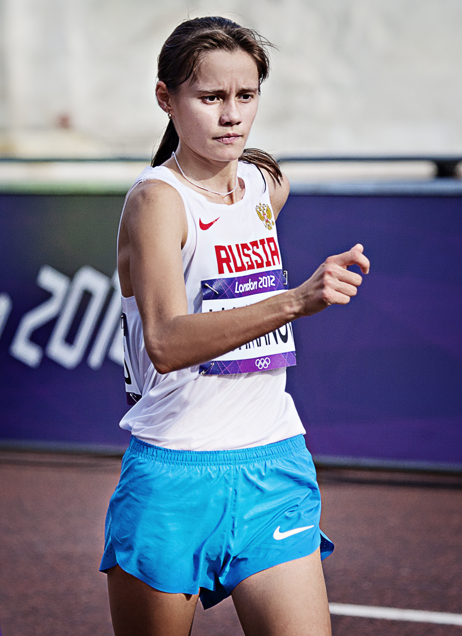 Women's 20 Km Olympic Race Walk, Saturday 11th August, The Mall